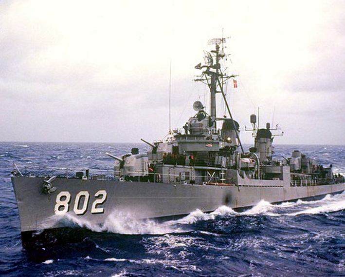 The U.S. Navy destroyer USS Gregory (DD-802) underway in the late 1950s or early 1960s.